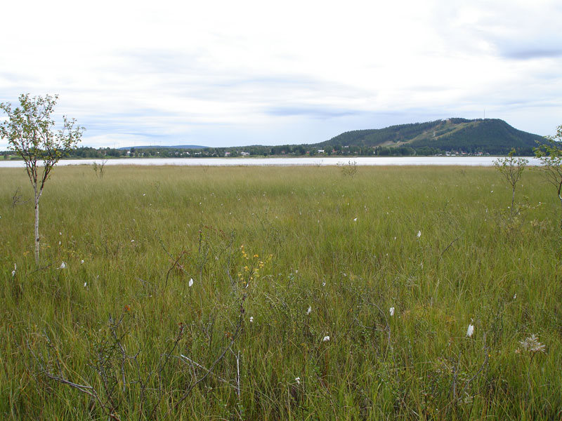 Lake Malåträsket with Malå on the other side and Mount Tjamstan to the right.